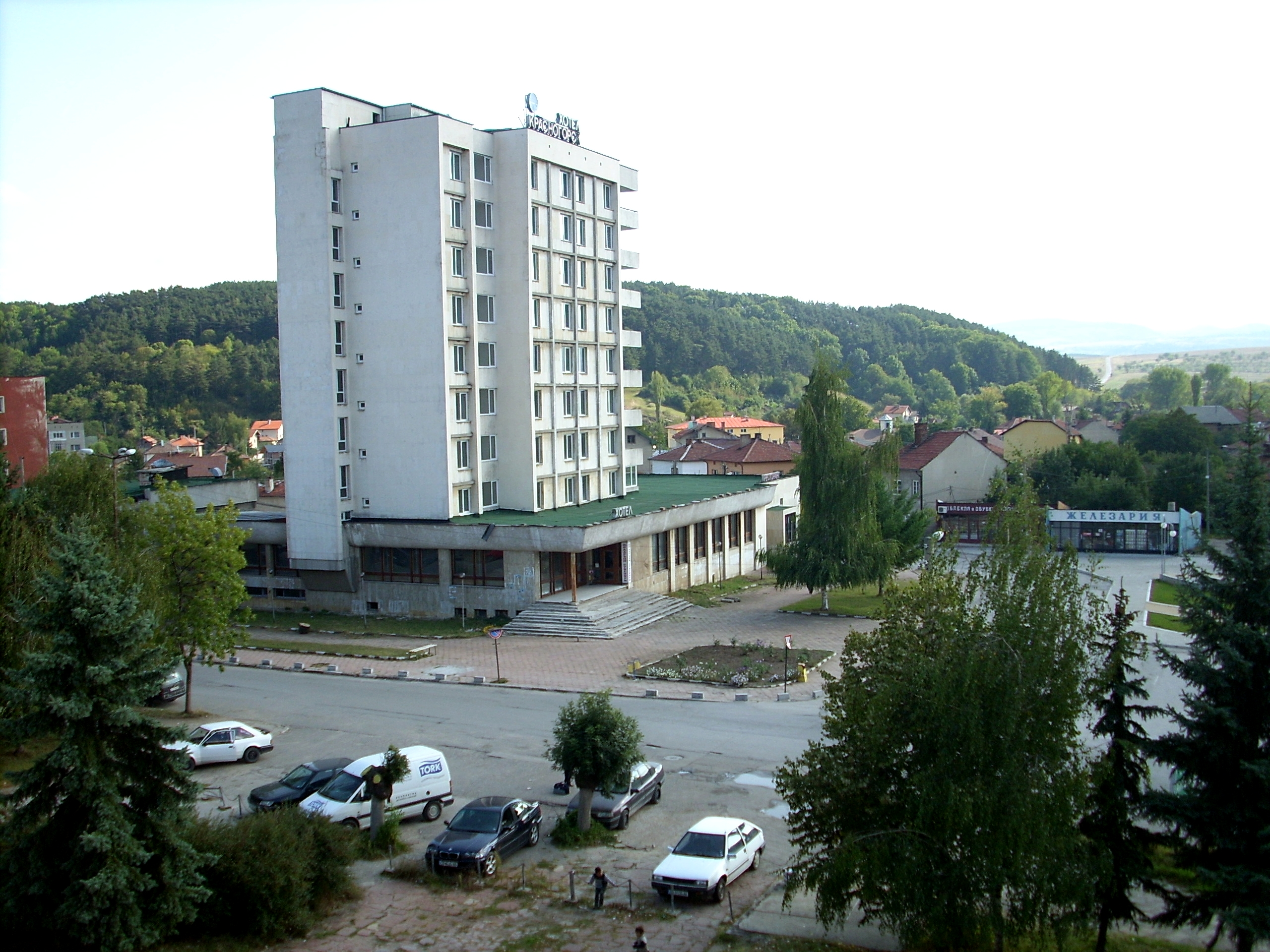 Hotel Krasnogorsk, Slivnitsa, Bulgaria